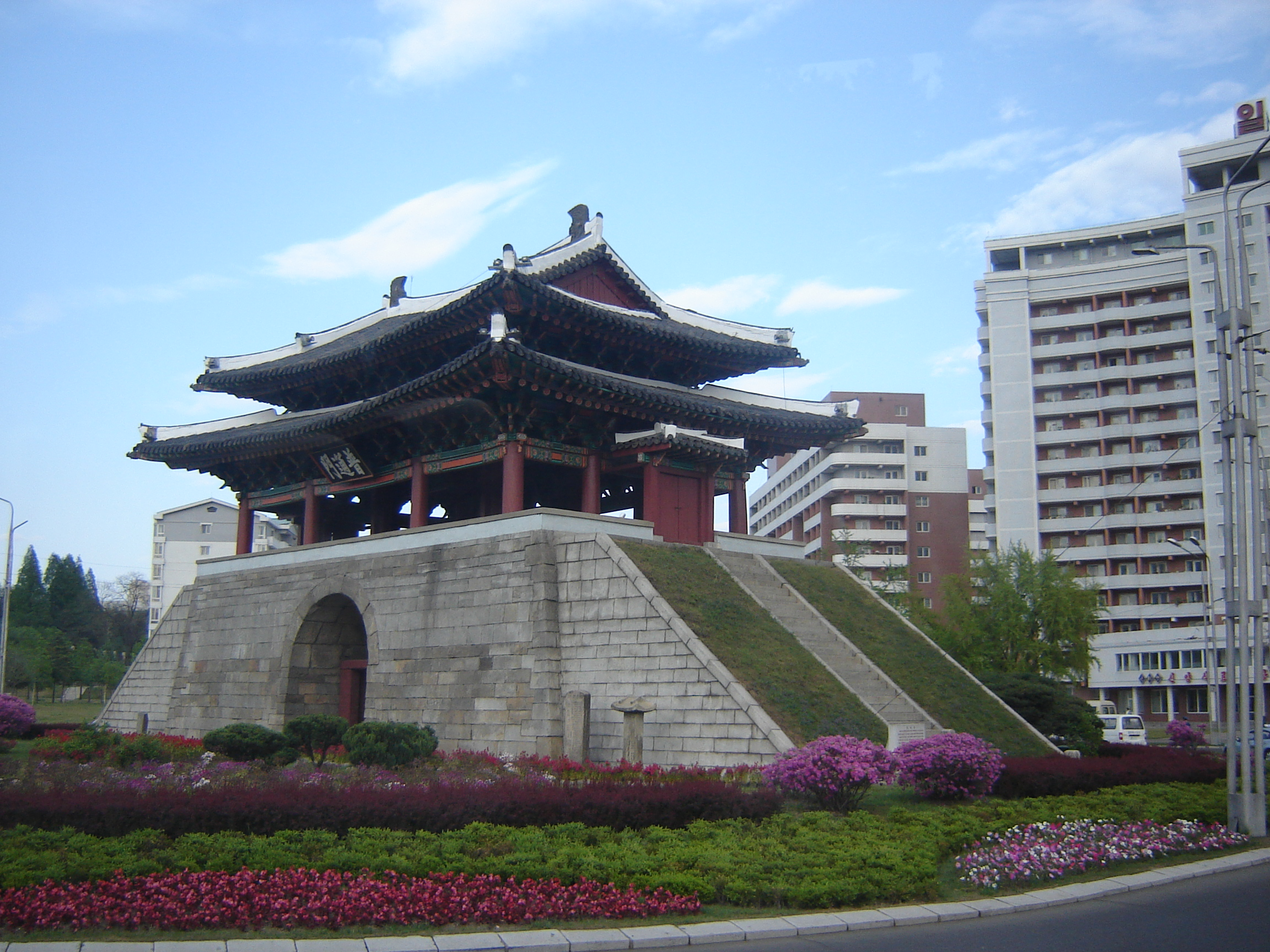 Potong Gate, the western gate of the inner complex of the walled city of Pyongyang